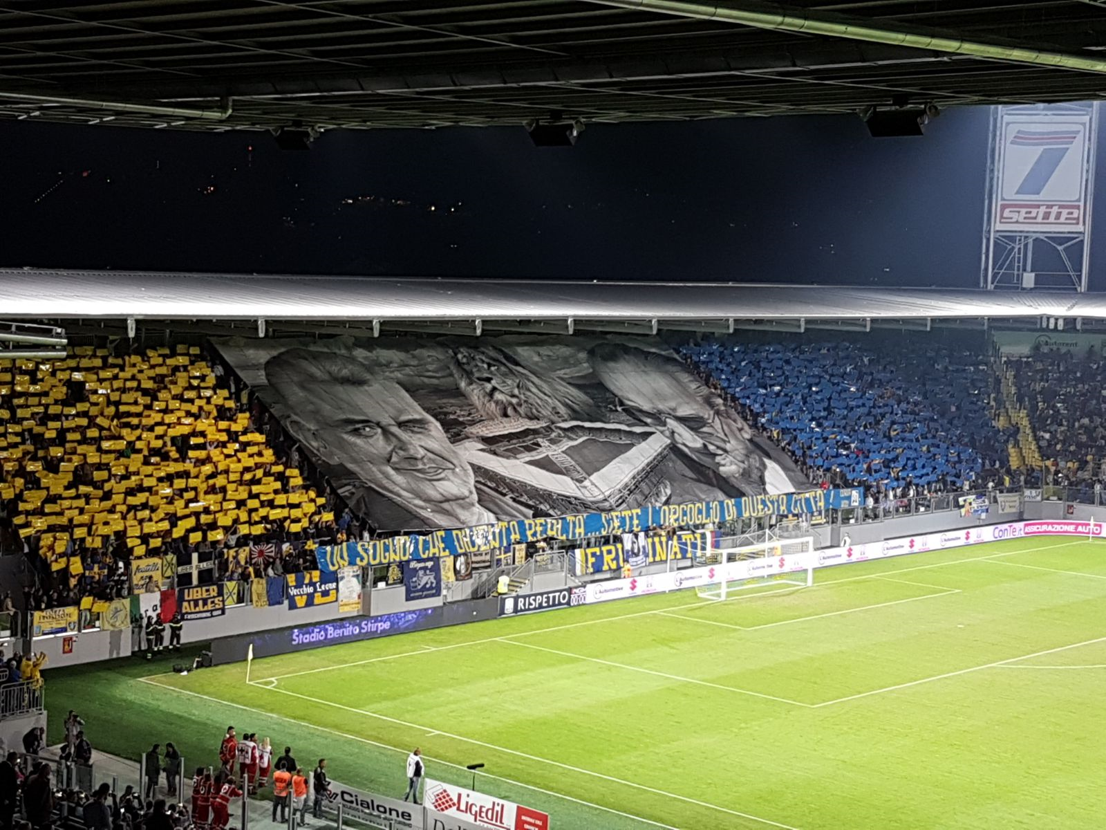 First match at the Benito Stirpe Stadium, North Stand (Frosinone-Cremonese 0-0, 02/10/2017)